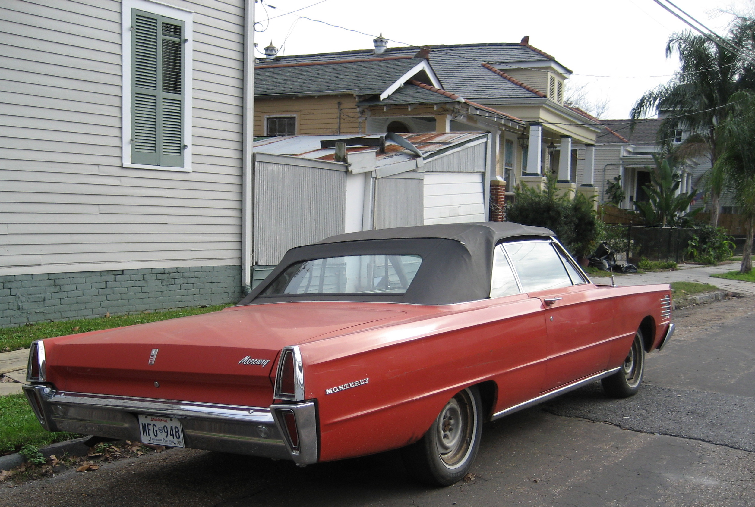 Mercury Monterey seen on New Orleans street